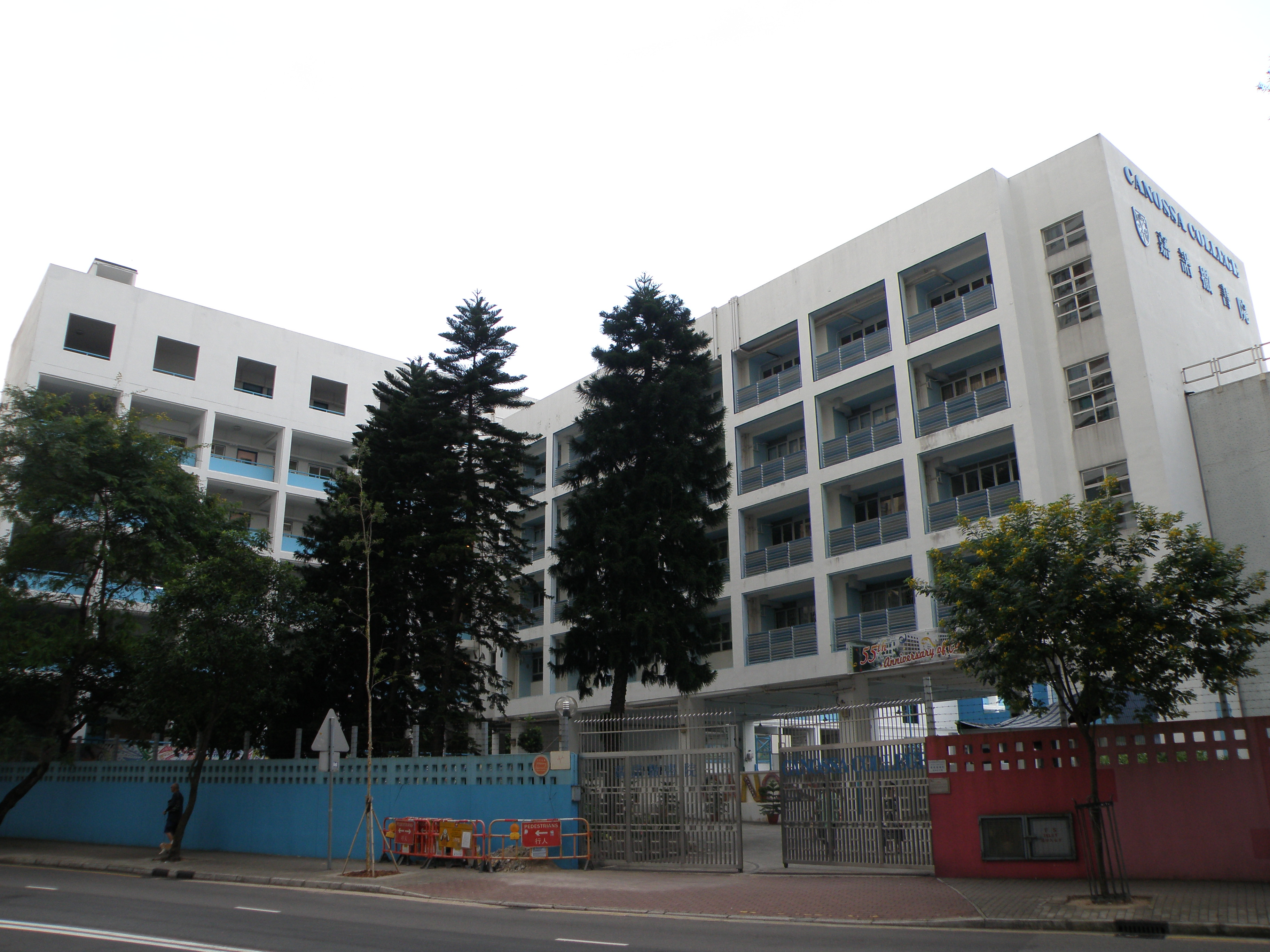 Canossa College in Quarry Bay, Hong Kong.